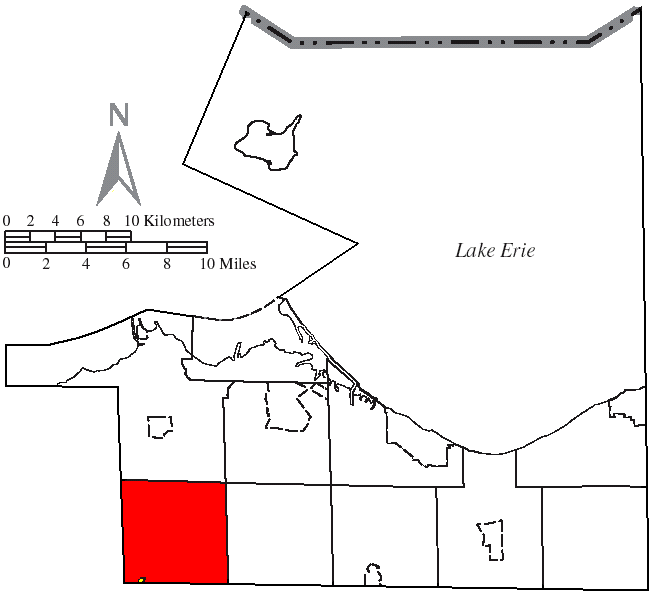 Made by the US Census and modified by myself